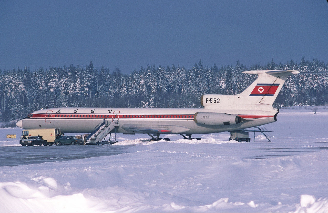 Chosonminhang Tupolev Tu-154B